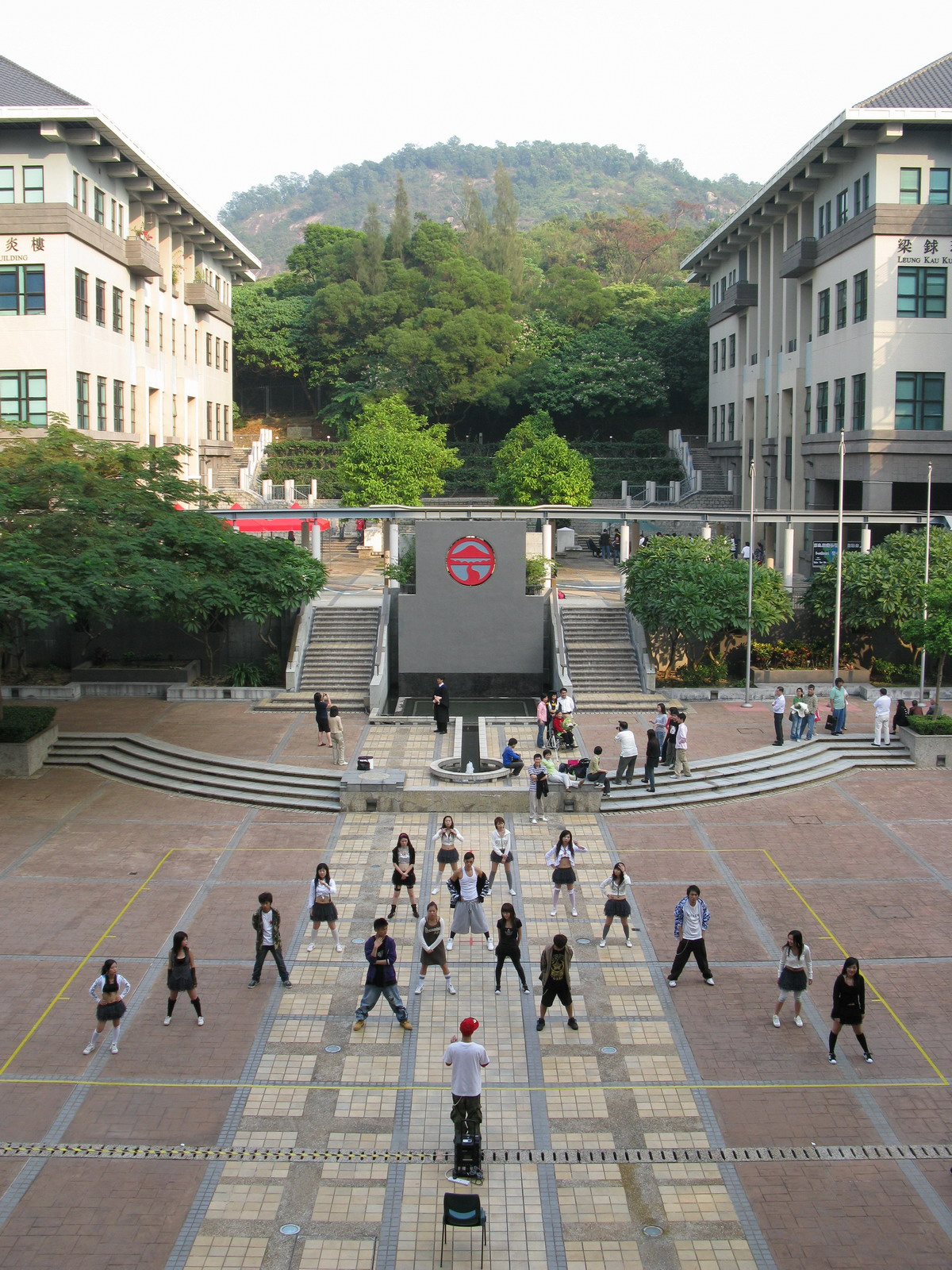 香港 屯門 嶺南大學 永安廣場 Wing On Plaza, Lingnan University, Tuen Mun, Hong Kong